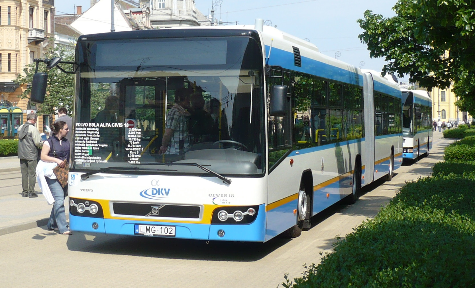 Volvo B9LA ALFA CIVIS 18 bus in Debrecen, Hungary.